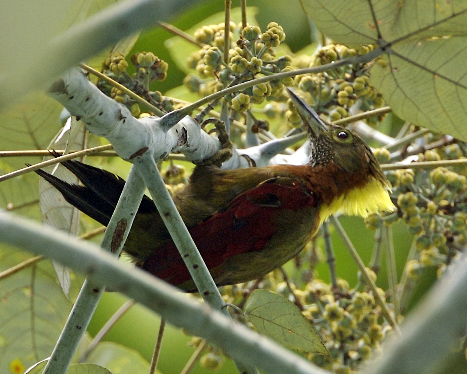 Checker-throated Woodpecker Picus mentalis humii Panti Forest, Johor, Malaysia 3 September 2006 Alt. Names: Chequer-throated Woodpecker Indonesian: Caladis gunung kumis abu